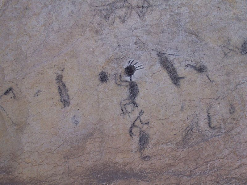 Pictographs on the wall of 'cueva numero uno' in El Pomier